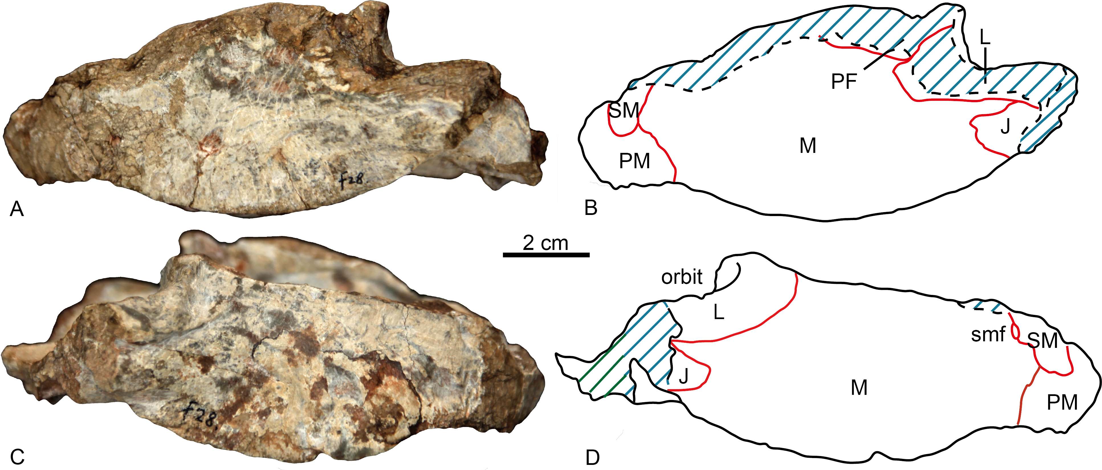 Holotype of Shiguaignathus wangi (IVPP V 23297) from the Naobaogou Formation of China. (A) photograph and (B) line drawing in left lateral view; (C) photograph and (D) line drawing in right lateral view. Abbreviations: J, jugal; L, lacrimal; M, maxilla; PF, prefrontal; PM, premaxilla; SM, septomaxilla; smf, septomaxillary foramen. Photo credit: Jun Liu. Drawing credit: Jun Liu and Yong Xu.